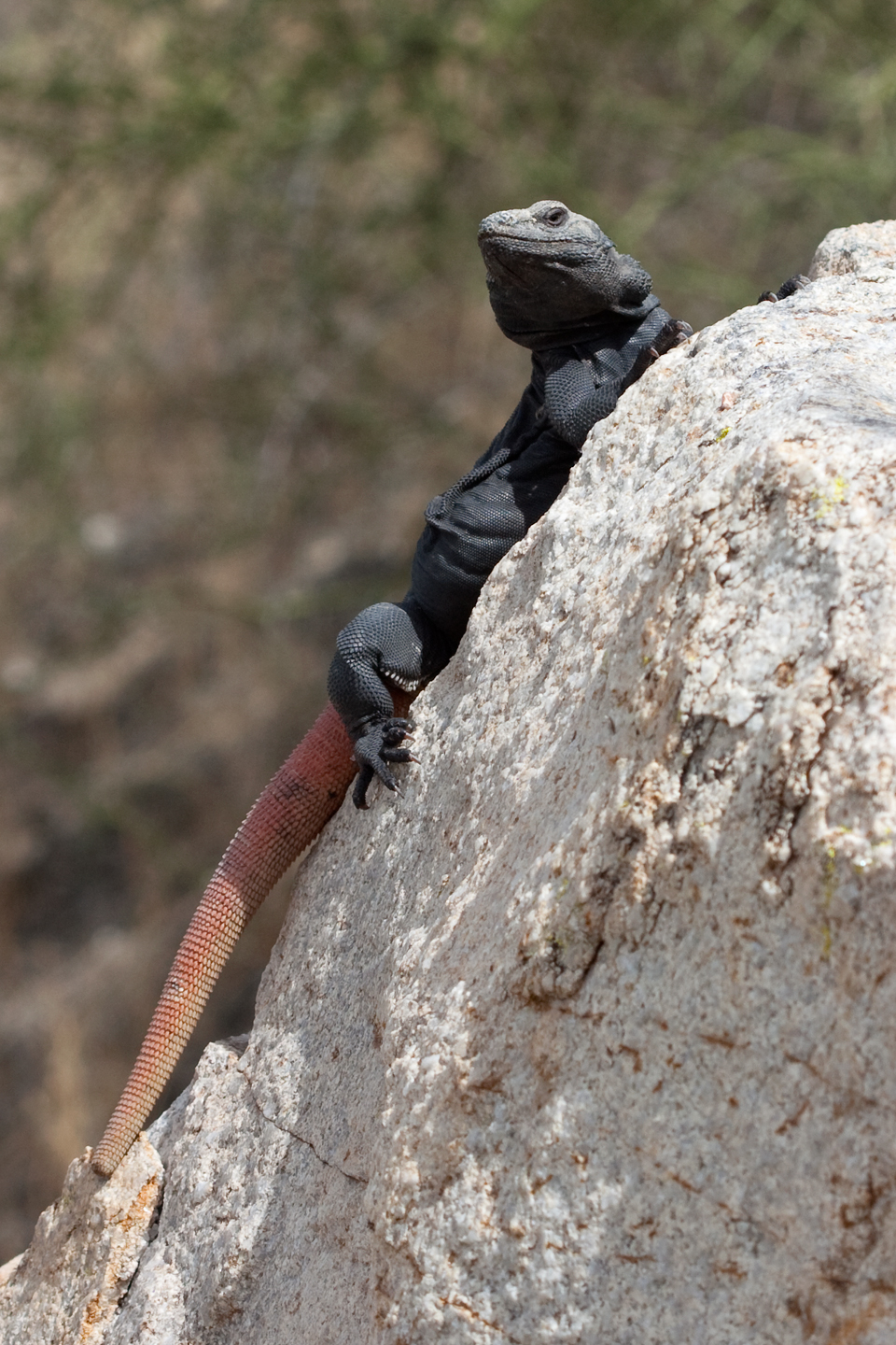 Male Common Chuckwalla (Sauromalus ater) near Phoenix, Arizona